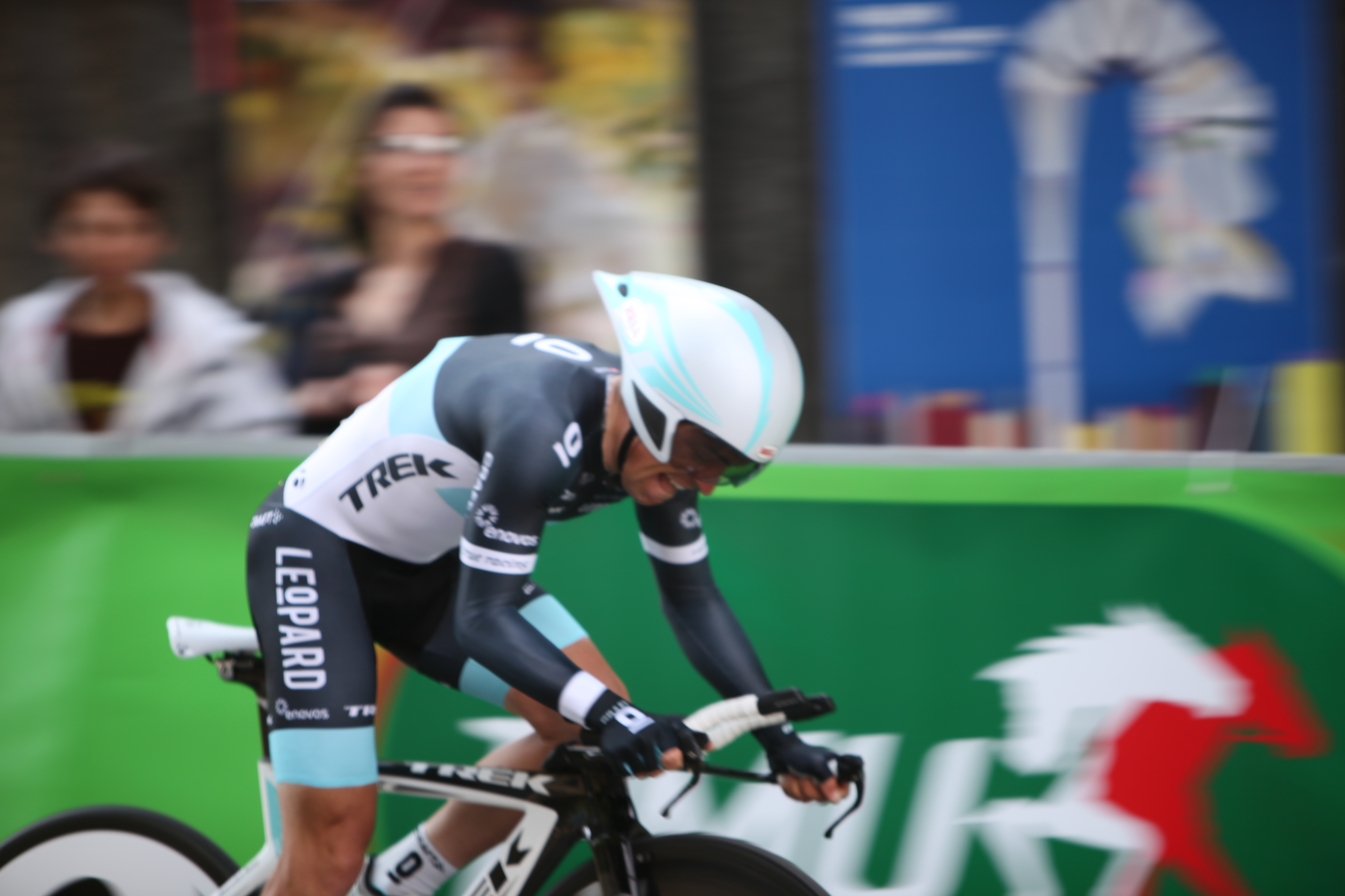 Oliver Zaugg at the prologue of the Tour de Romandie 2011